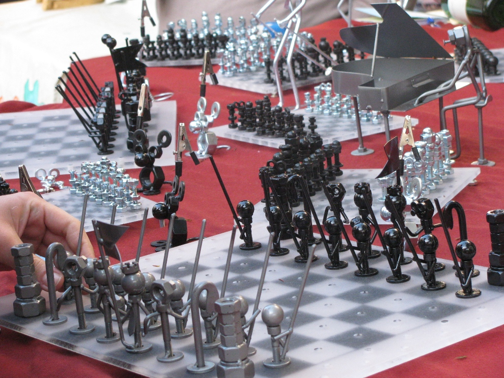 Chess design